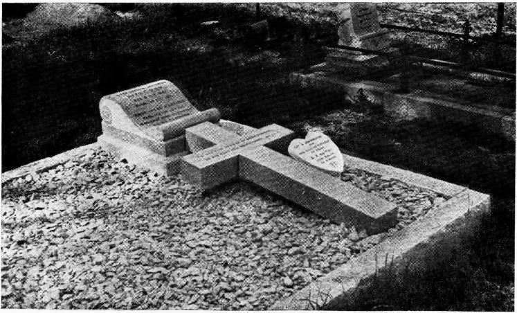 Grave of SJ du Toit, Daljosafat cemetery, Paarl. The stone has the text (in Dutch) "Here rests Stephanus Jacobus du Toit , V.D.M. [Verbi Divini Minister] born. 9 October, 1847, died. 28 May, 1911. Father of the Afrikaans language. Founder of the Afrikaner Bond and fighter for Calvinism". The cross has the text "I have raised him up in righteousness saith the God of Hosts." [Isa 45:13]